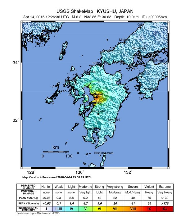 Shakemap for the 14 April 2016 Japan earthquake at 15:03 UTC